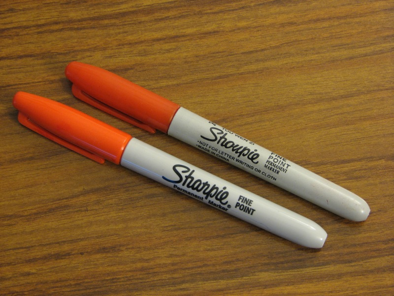 A Sharpie marker next to a "Shoupie" knockoff marker.